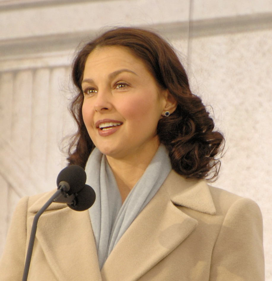 Ashley Judd at the Lincoln Memorial on the National Mall in Washington, D.C., Jan. 18, 2009, during the inaugural opening ceremonies.